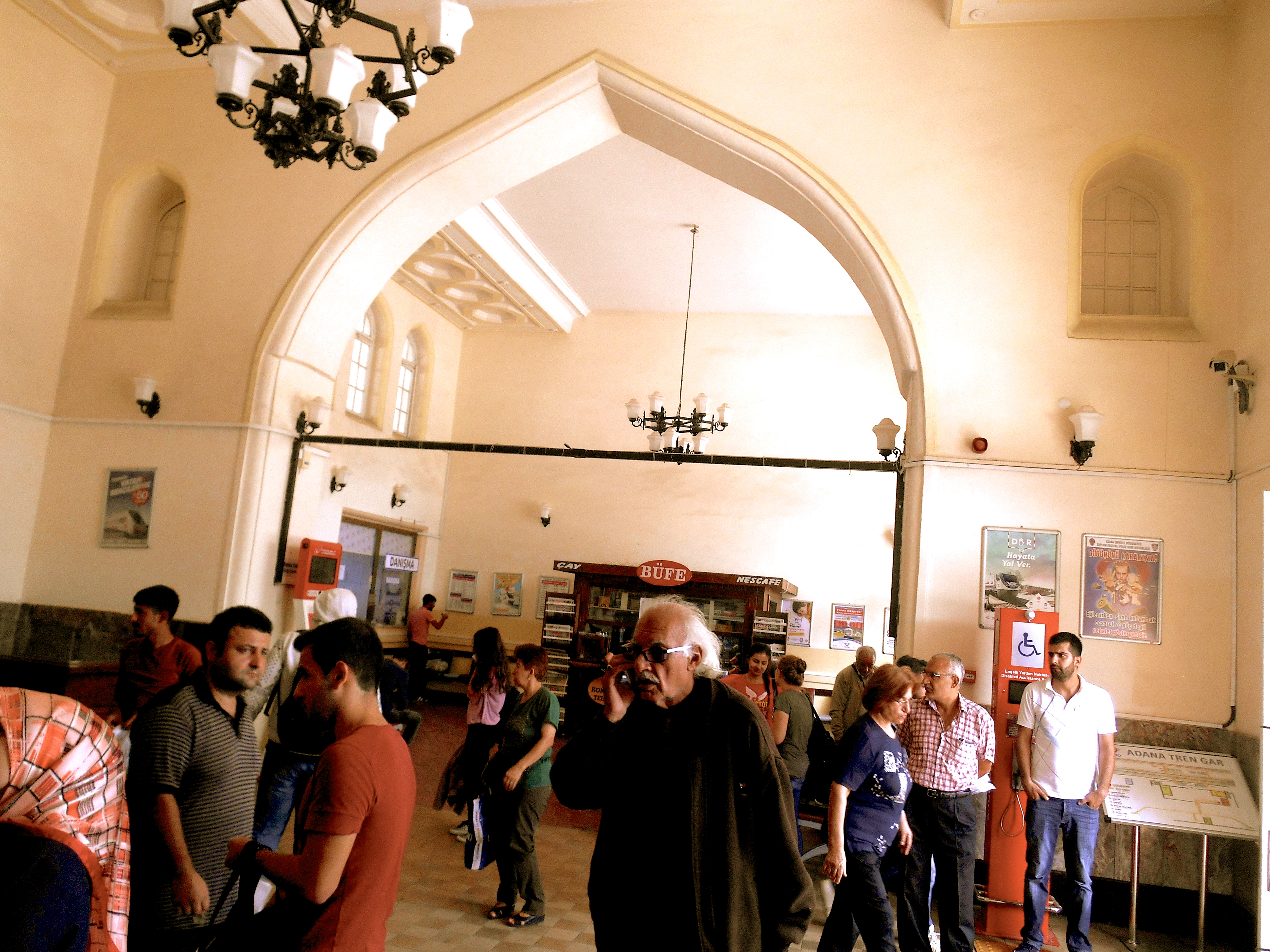 Passenger Hall at the Main Building